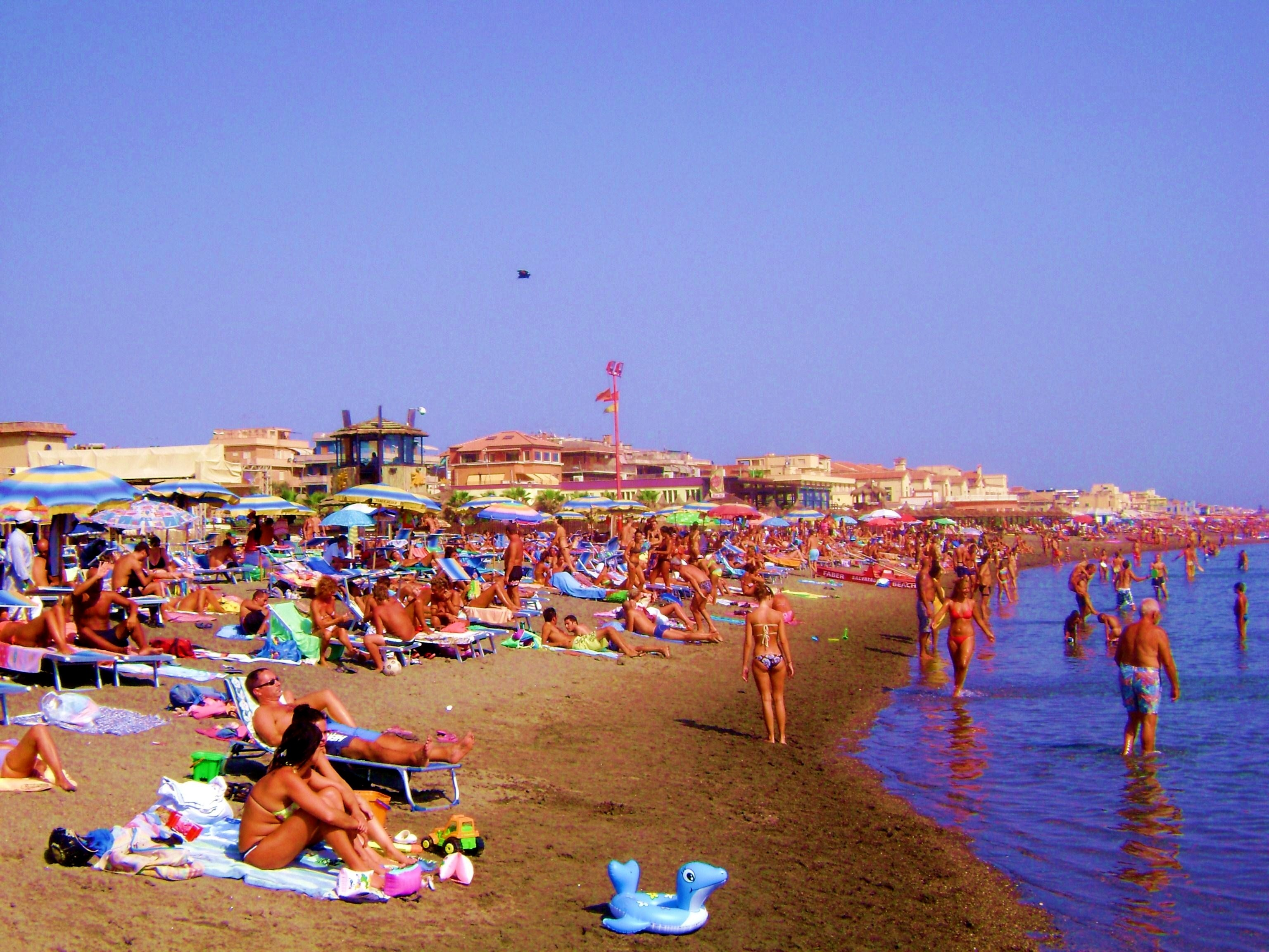 Ostia Lido beach, Itay